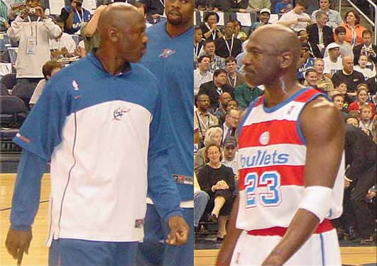 Michael Jordan: Michael Jordan and the Wizards played the New York Knicks on Monday night, April 14, 2003. This was Michael's last home game at the MCI center before his retirement as a player. Left: Michael Jordan is on the basketball court during pregame warm ups. Right: This is a picture from a retro throw-back night with the Wizards. Retro jerseys night are a common theme in NBA games today.